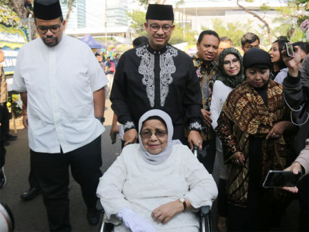 DKI Jakarta Governor, Anies Baswedan, along with his sibling, Abdillah Rasyid Baswedan, and his mother, Aliyah Rasyid Baswedan, commended adultery at the same time carrying out the body prayer for the deceased 3rd President of Indonesia Bacharuddin Jusuf Habibie at the funeral home, Patra Kuningan Region, South Jakarta, Thursday (12/9/2019).